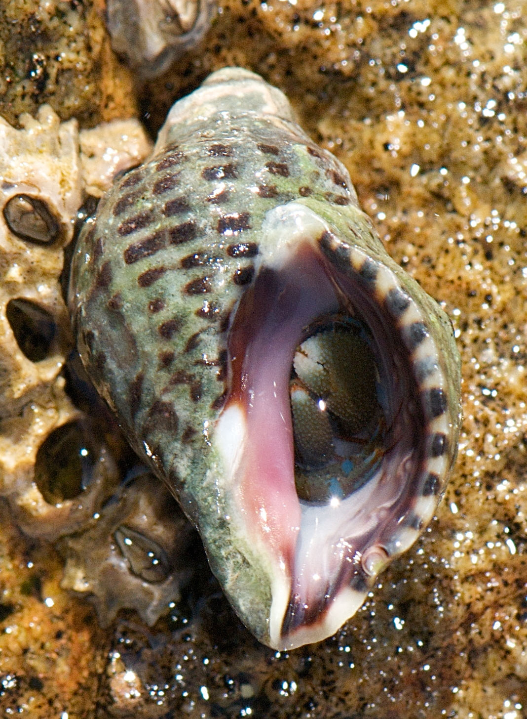 hermit-crabbed shell of Acanthina punctulata.